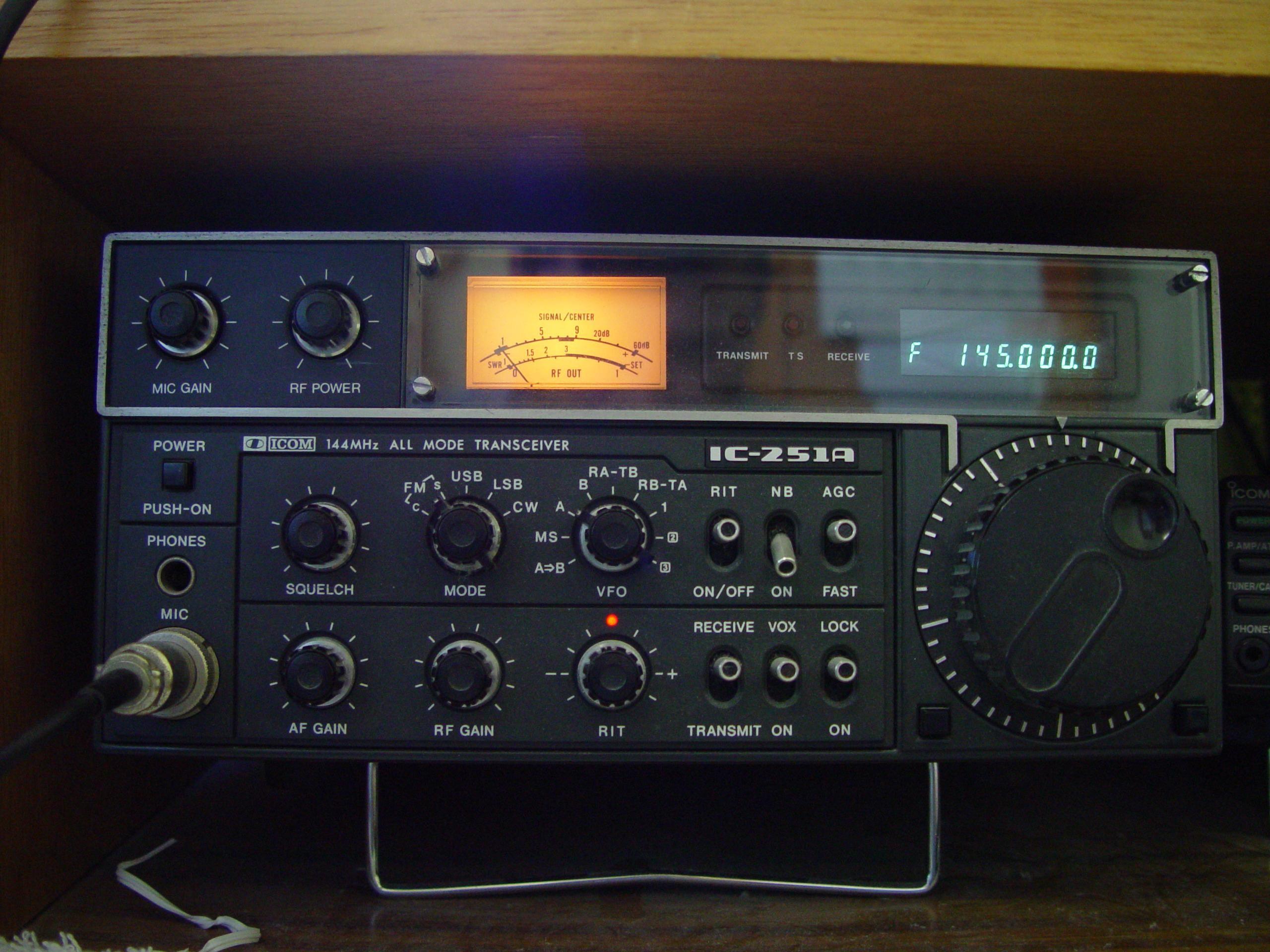 Image title: Radio transceiver Image from Public domain images website